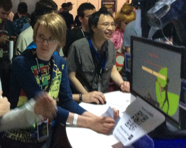 Kew McParlane demonstrating Rivalry at PAX Australia, 2015